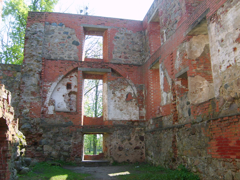 Castle ruins in Grobina